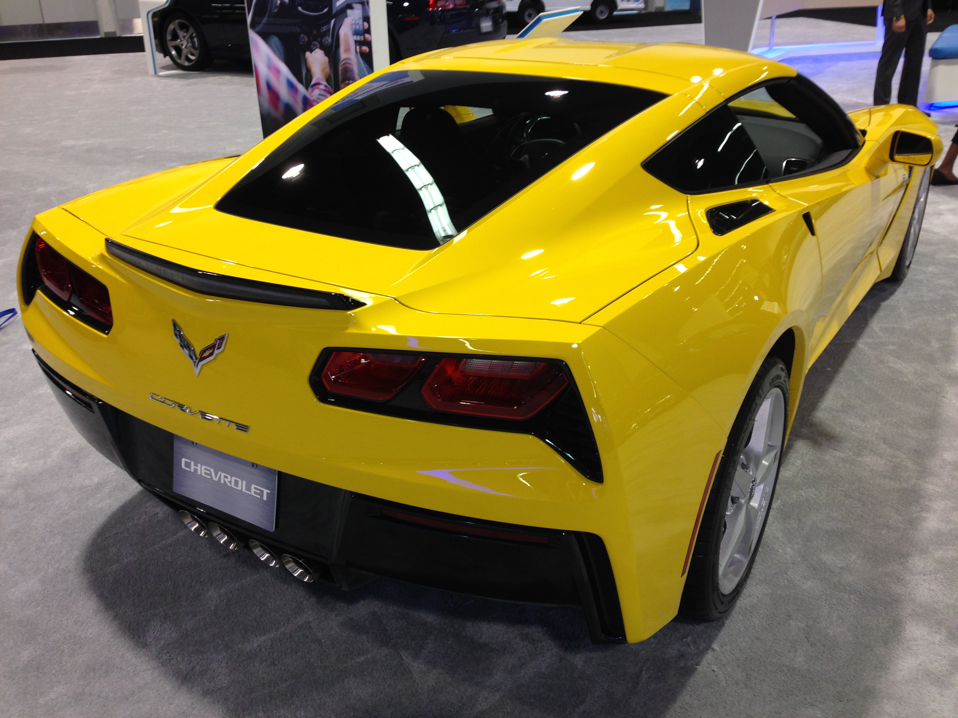 The new C7 Chevrolet Corvette at the 2013 LA Auto Show. Strong and muscular shoulder lines